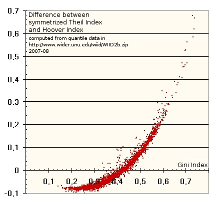 Difference between symmetrized Theil indexes and Hoover indexes plotted over Gini indexes computed from world income inequality database (2007-05). The database itself is not part of this work.